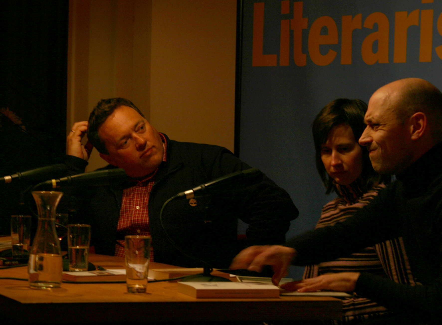 German author and musician Thomas Meinecke in 2006 (with Kathrin Röggla and Klaus Sander)